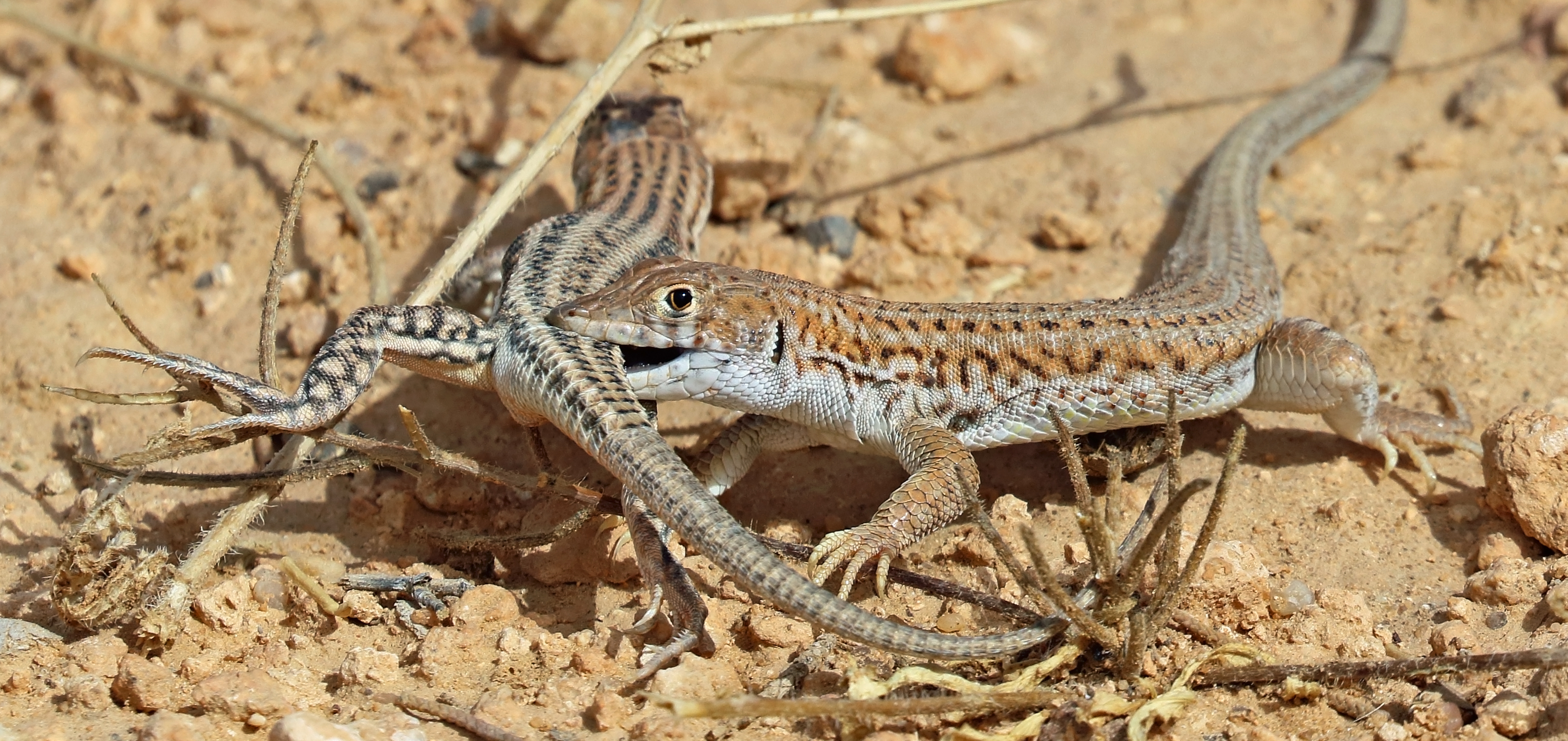 Bosc's fringe-toed lizards (Acanthodactylus boskianus asper) love bite as part of courtship, Dana Biosphere Reserve, Jordan